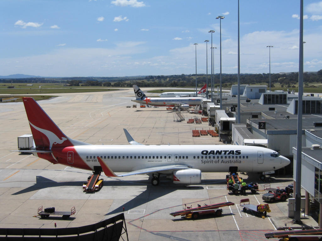 Overview of Melbourne Airport Terminal 1 with Qantas Boeing 737 (VH-VXR) and Jetstar aircraft